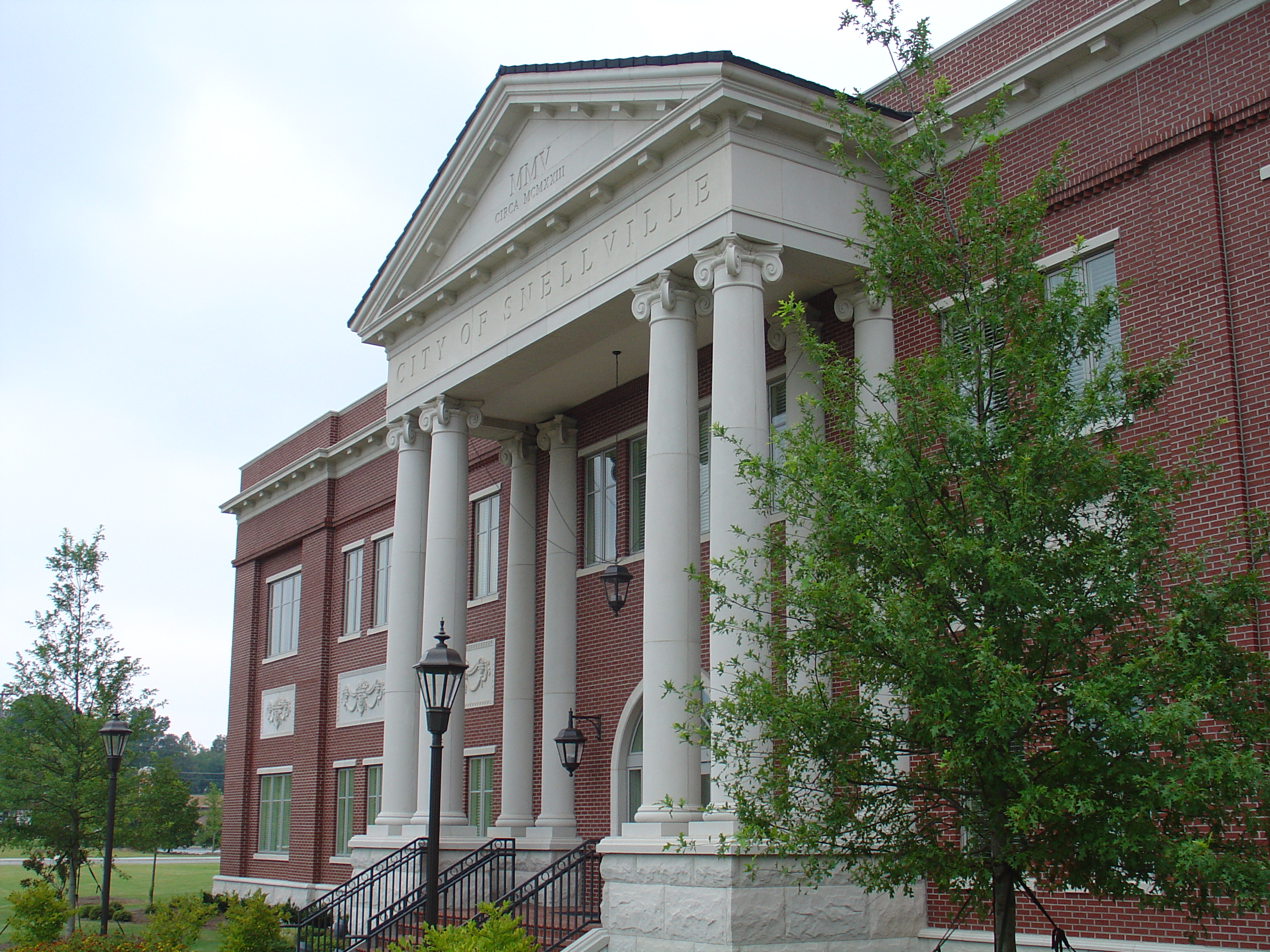 City Hall in Snellville, Georgia.